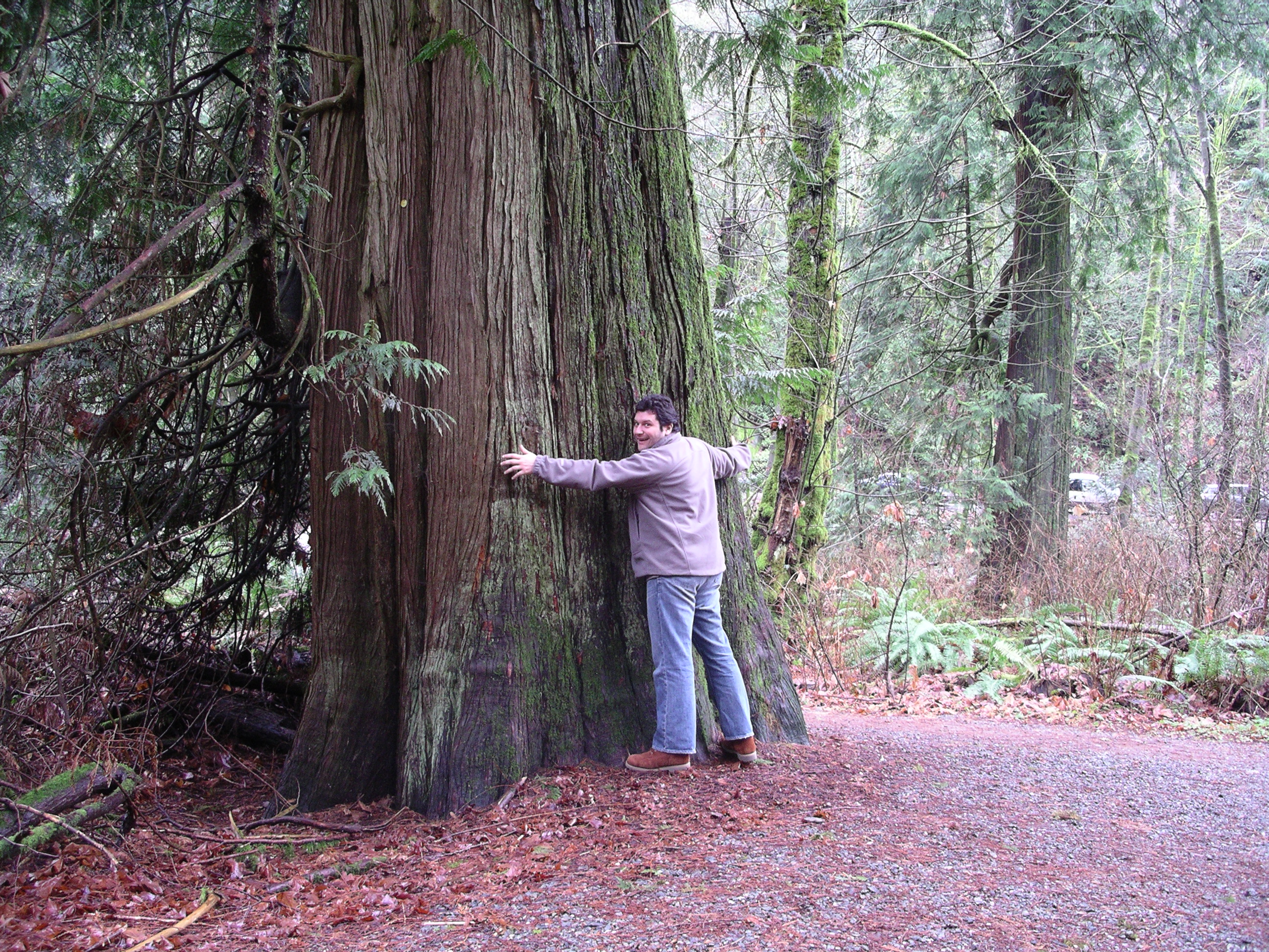 Diego hugging a huge Western Redcedar tree. Goldstream Provincial Park, Victoria, British Columbia.